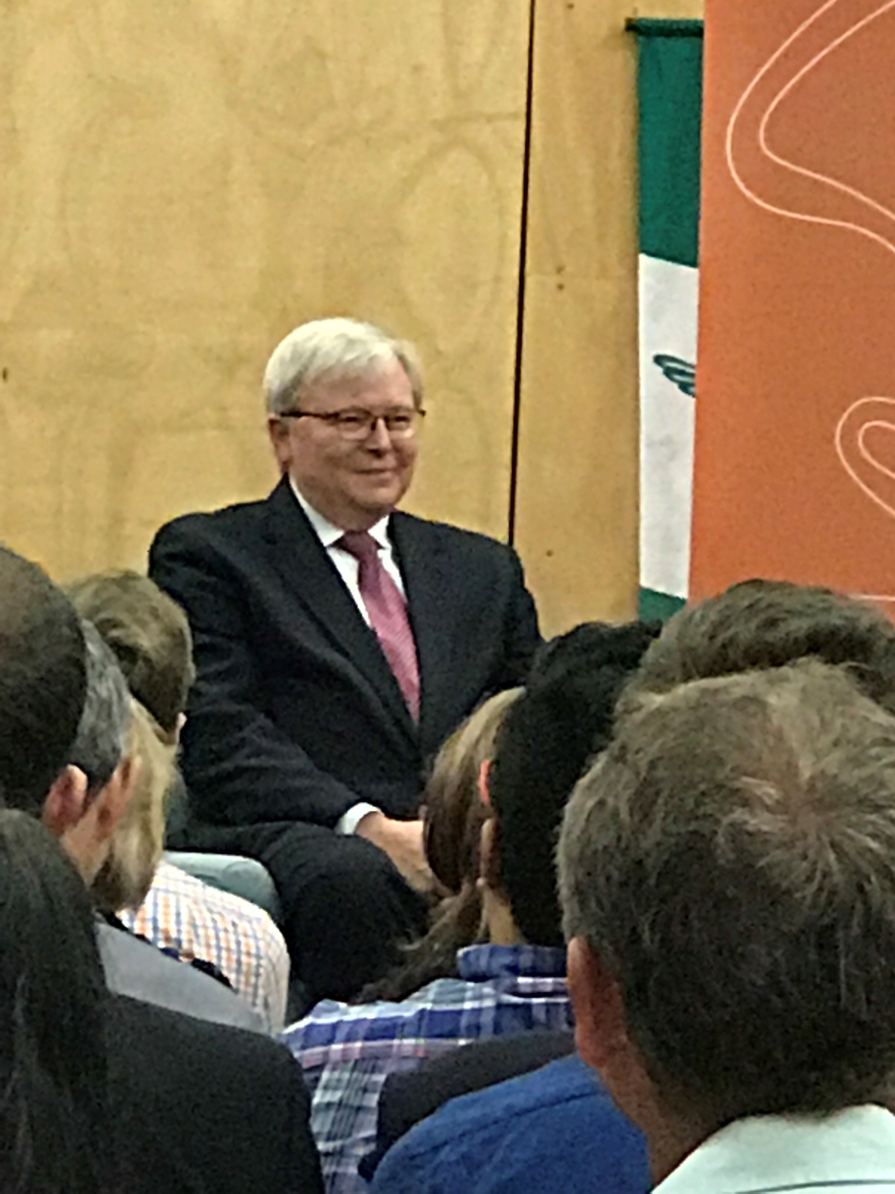 Kevin Rudd, book launch, Bulimba State School, 25 October 2017